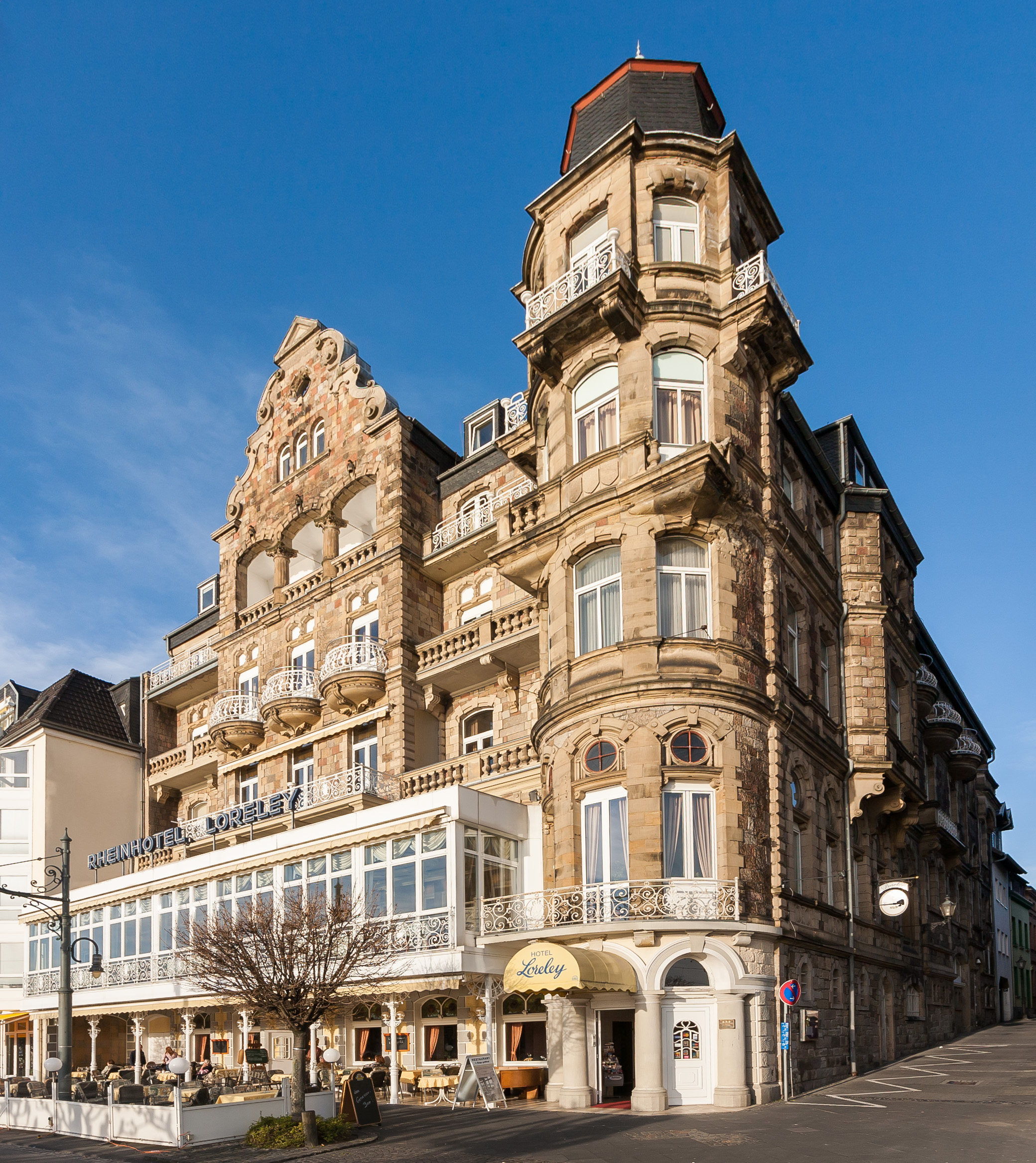 “Rheinhotel Loreley”, Rheinallee 12, Königswinter, Germany